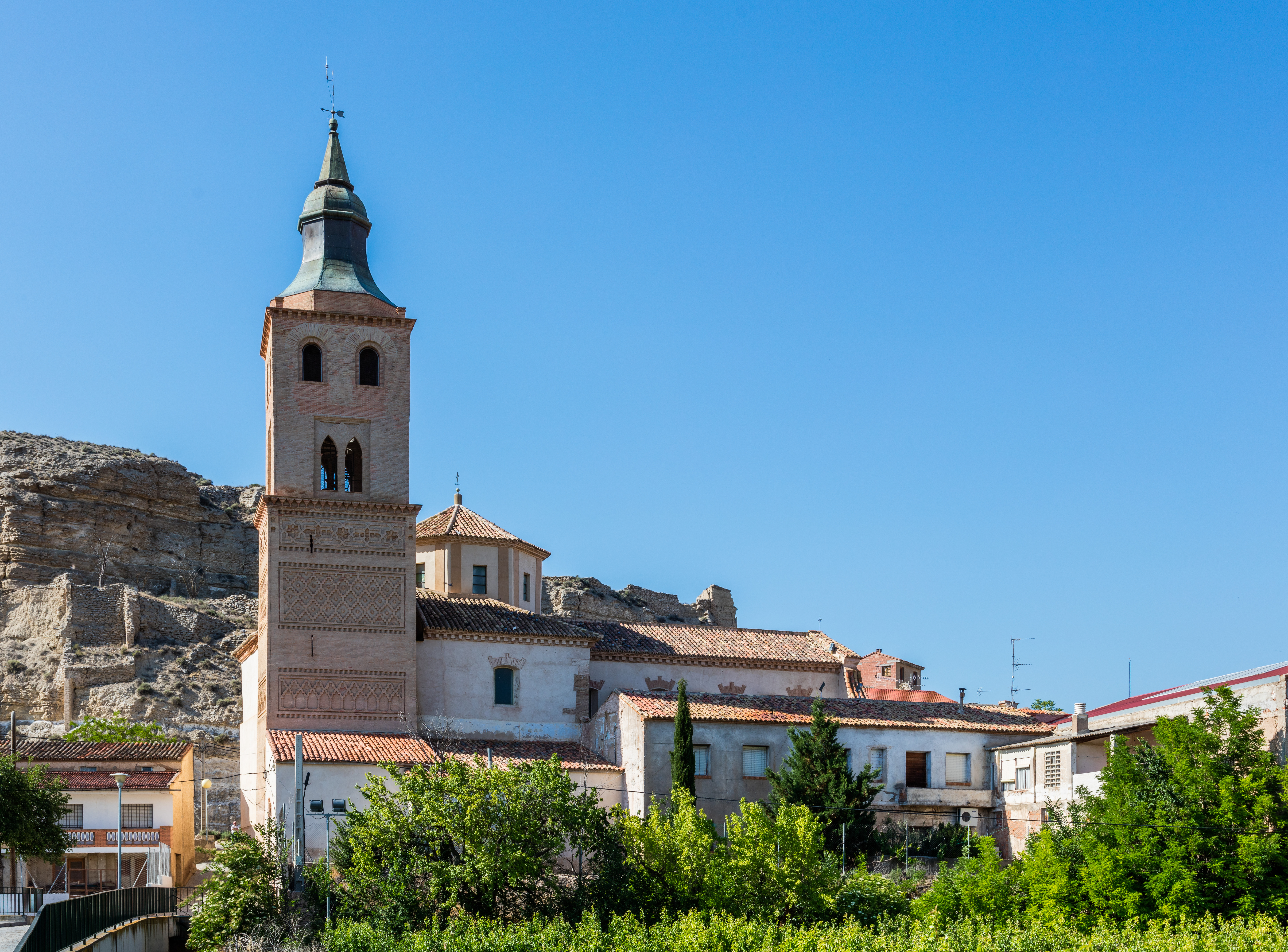 Church of the Assumption, Terrer, Saragossa, Spain